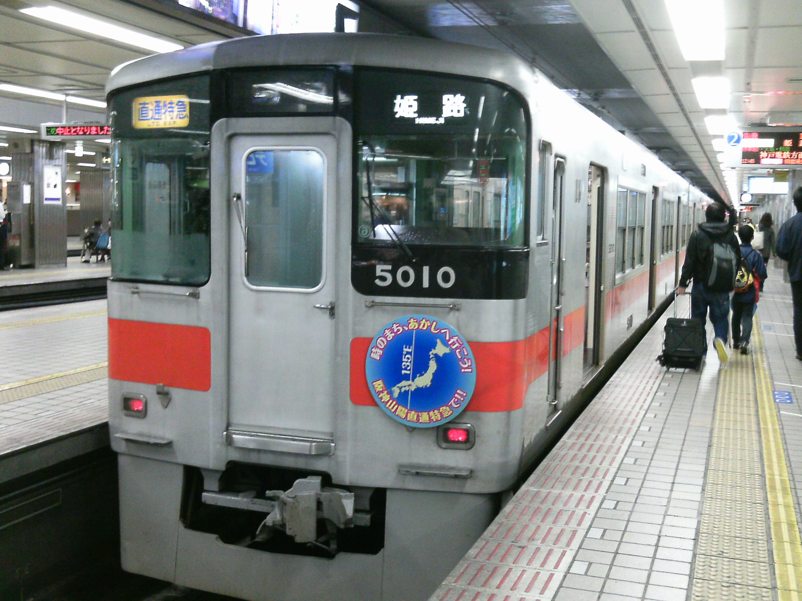 Sanyo Electric Railway 5010 series EMU at Hanshin Umeda Station